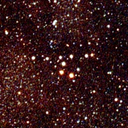 Credit: Till Credner, Collinder 399 (Brocchi's Cluster) USED BY PERMISSION under the terms of the GNU Free Documentation License (GFDL). I am uploading this image file again at this time in order to make certain that everything has been done properly in regard to permission and licensing. The image itself has not changed since the original upload in April 2005, but hopefully the documentation will be improved now. The copyright holder of this image is Till Credner. His website (and the source of this image) is: . On April 23, 2005 I wrote to Till requesting permission to use the image on Wikipedia under the terms of the GNU Free Documentation License (GFDL) using the sample letter provided by Wikipedia at that time. On April 25, 2005 I received a reply granting permission to use the image in the size displayed at: . On September 9, 2007 I forwarded my complete correspondence with the copyright holder to "permissions-en AT wikimedia DOT org" as directed on the upload page so that "the Wikipedia Foundation has a record of the license in case questions should arise at a later time about the permission for this image" The technical details about the image as given by the copyright holder are as follows: This image is a magnification of a 3° x 3° field from an original wide-field image. The original image was obtained by Till Credner on August 8, 1999 at 23:57 UT from the Hoher List Observatory about 100 km SW of Bonn, Germany. It was exposed 35 min on Kodak Royal 400 Select with a f=50mm 1/4.0 lens. The field of view of the original image is 39° x 27°. The image was obtained with a usual mechanic camera and lens of normal focal length (50mm). Guiding was done on a Super Polaris mount. The conventional photography was digitized to 2048 x 3072 pixels and a color depth of 3 x 8 Bits. Digital image processing improved the quality of the image dramatically. The main steps were the subtraction of the sky background and following contrast enhancement.